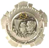 Order of Labour